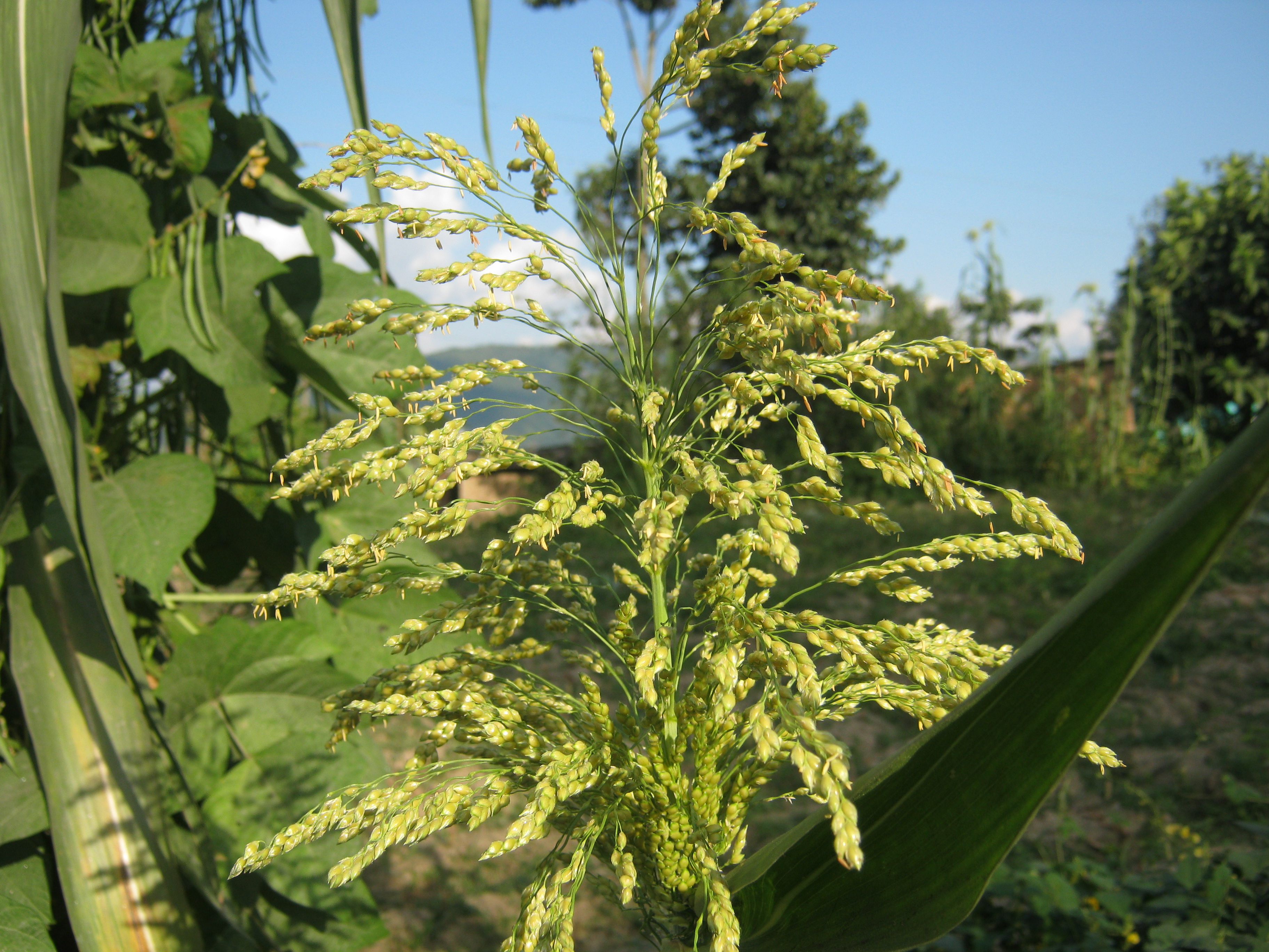 Panicum miliaceum in Nepal.